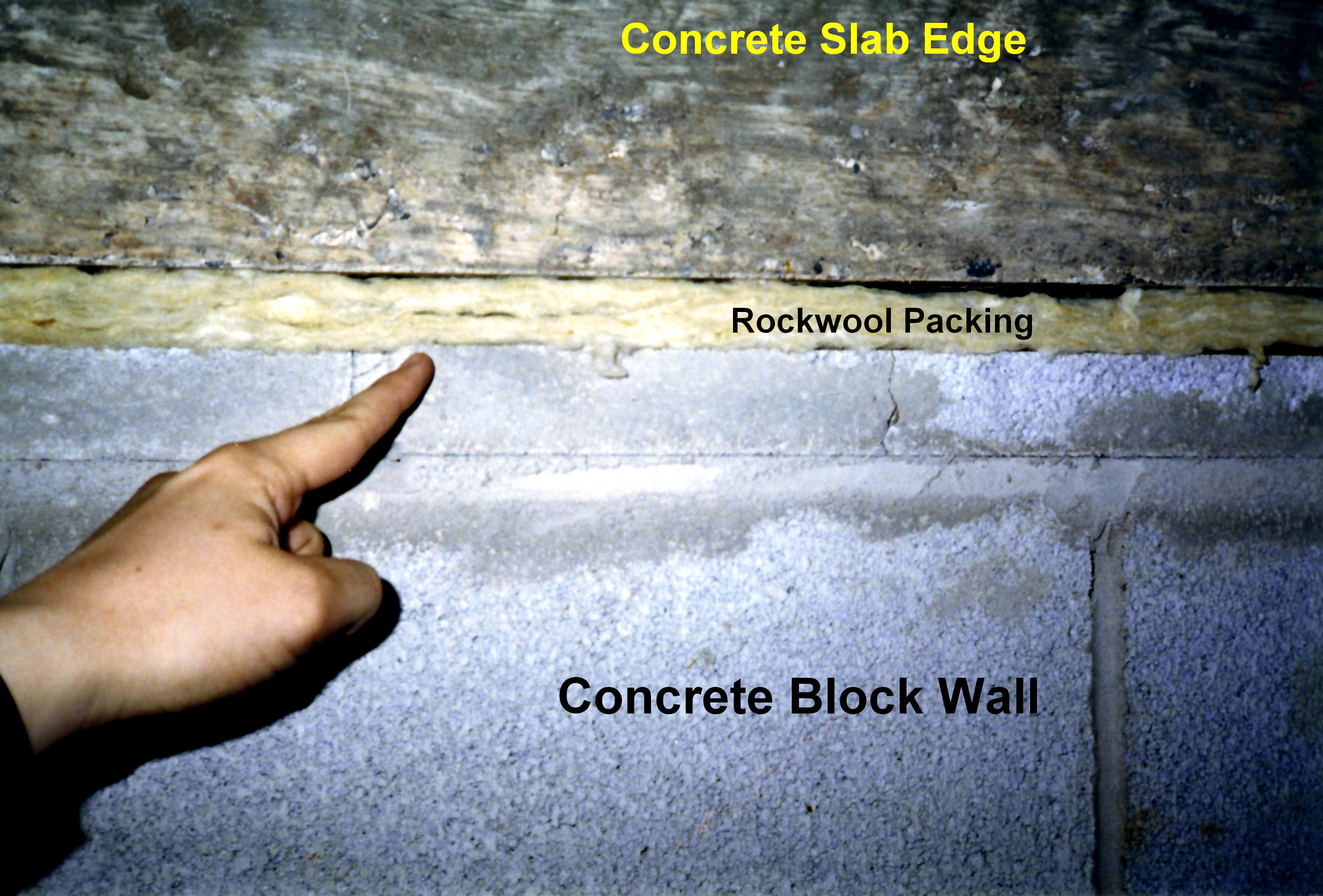 "HOW" (Head Of Wall) Building Joint with incomplete firestop, made of rockwool packing, which still requires topcaulking.